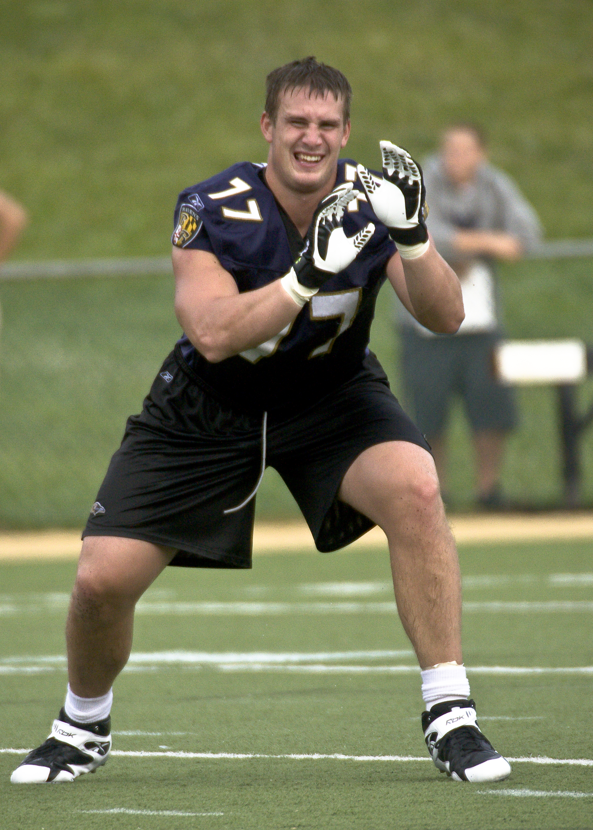 Joe Reitz of the National Football League's Baltimore Ravens during preseason training camp.